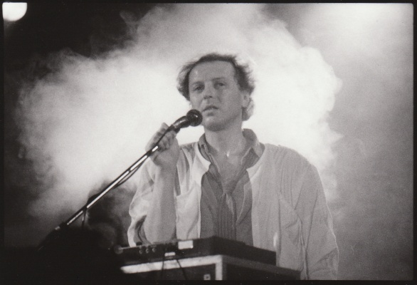 Luboš Pospíšil (born 1950), czech rock singer, Vokalíza 1987, Lucerna Hall, Prague, 23 September 1987